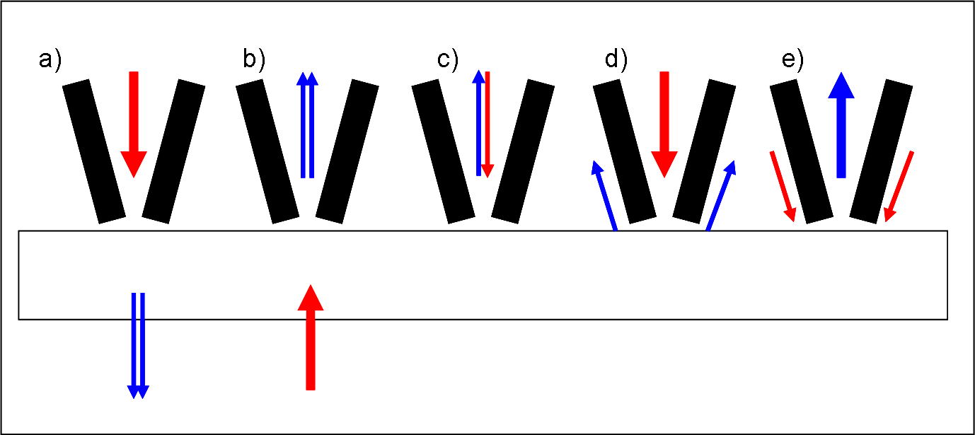 11. Introduction to NSOM. The Optics Laboratory, North Carolina State University. 12 Oct 2007. .)